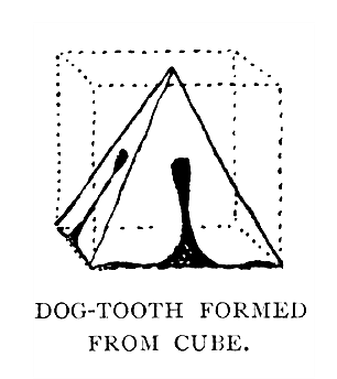 dog-tooth ornament unit formed from cube